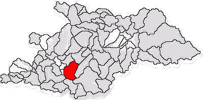 Map of Copalnic Mănăştur commune in Maramureş